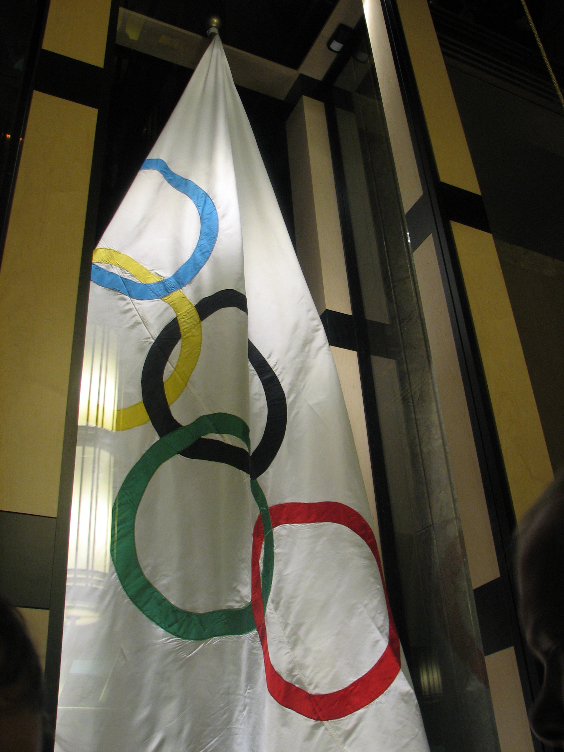 The Olympic flag which first flew over the Winter Games in Oslo 1952 then was moved to Cortina Italy where the Italians made an inlaid box for further transportation